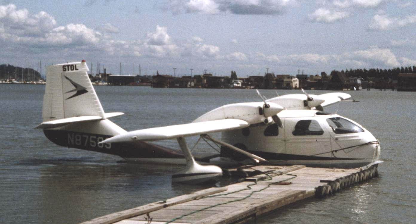 United Consultants Twin Bee N87589 converted from a standard Republic Sea Bee. Mill Valley seaplane base near San Francisco, CA.